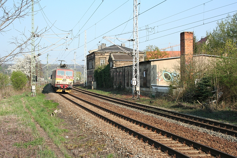 old railway station of Pirna with pasing EuroCity-train